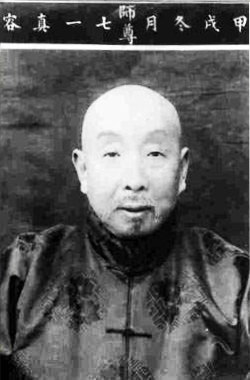 Duan Zhengyuan